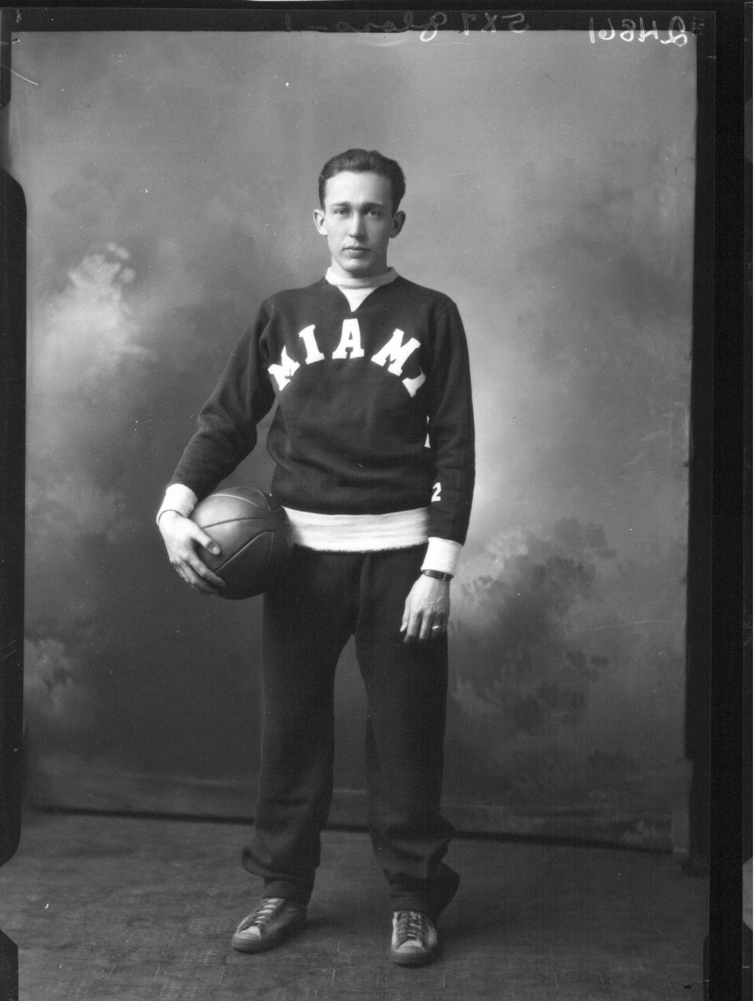 Persistent URL: Subject (TGM): Sports; Athletes; Basketball players; Basketball uniforms; Universities and colleges; Portrait photographs; Location: Oxford, Ohio